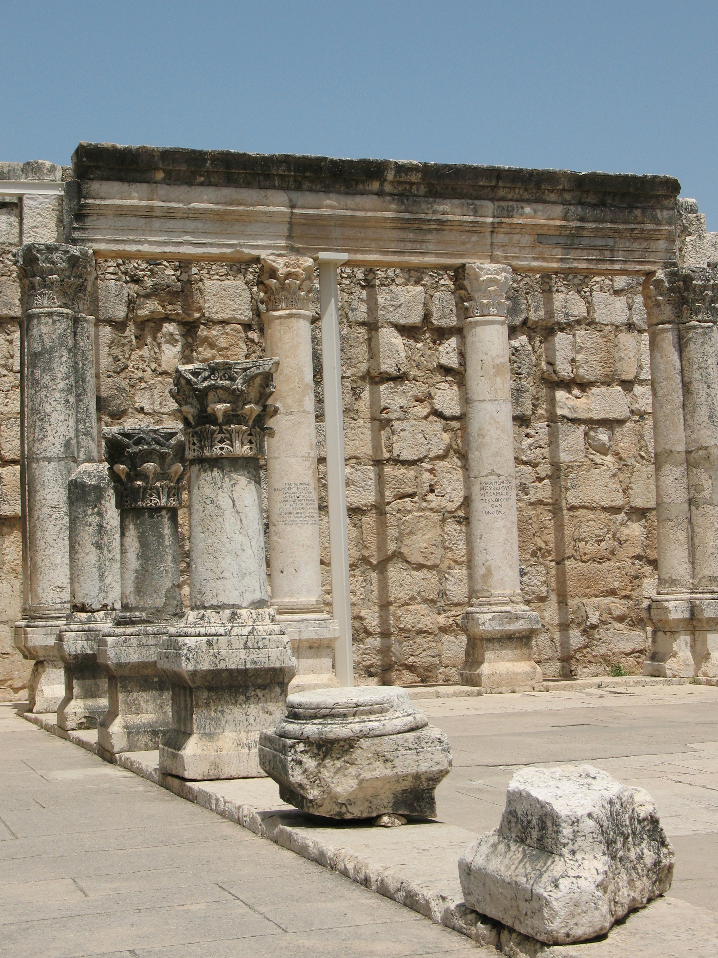 blogged at .au/archive/2008/07/01/225.aspx Capernaum